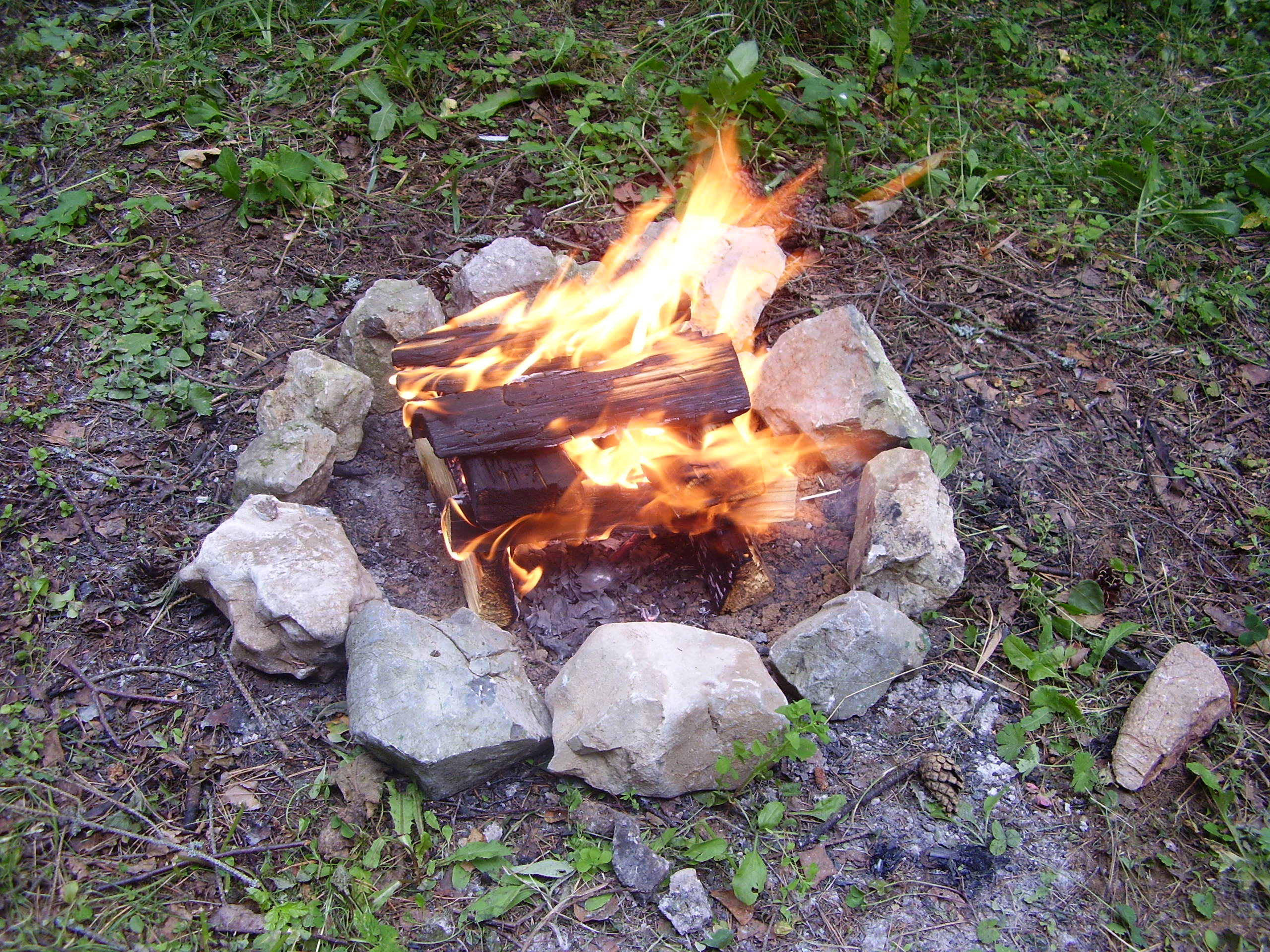 Open fireplace with fire